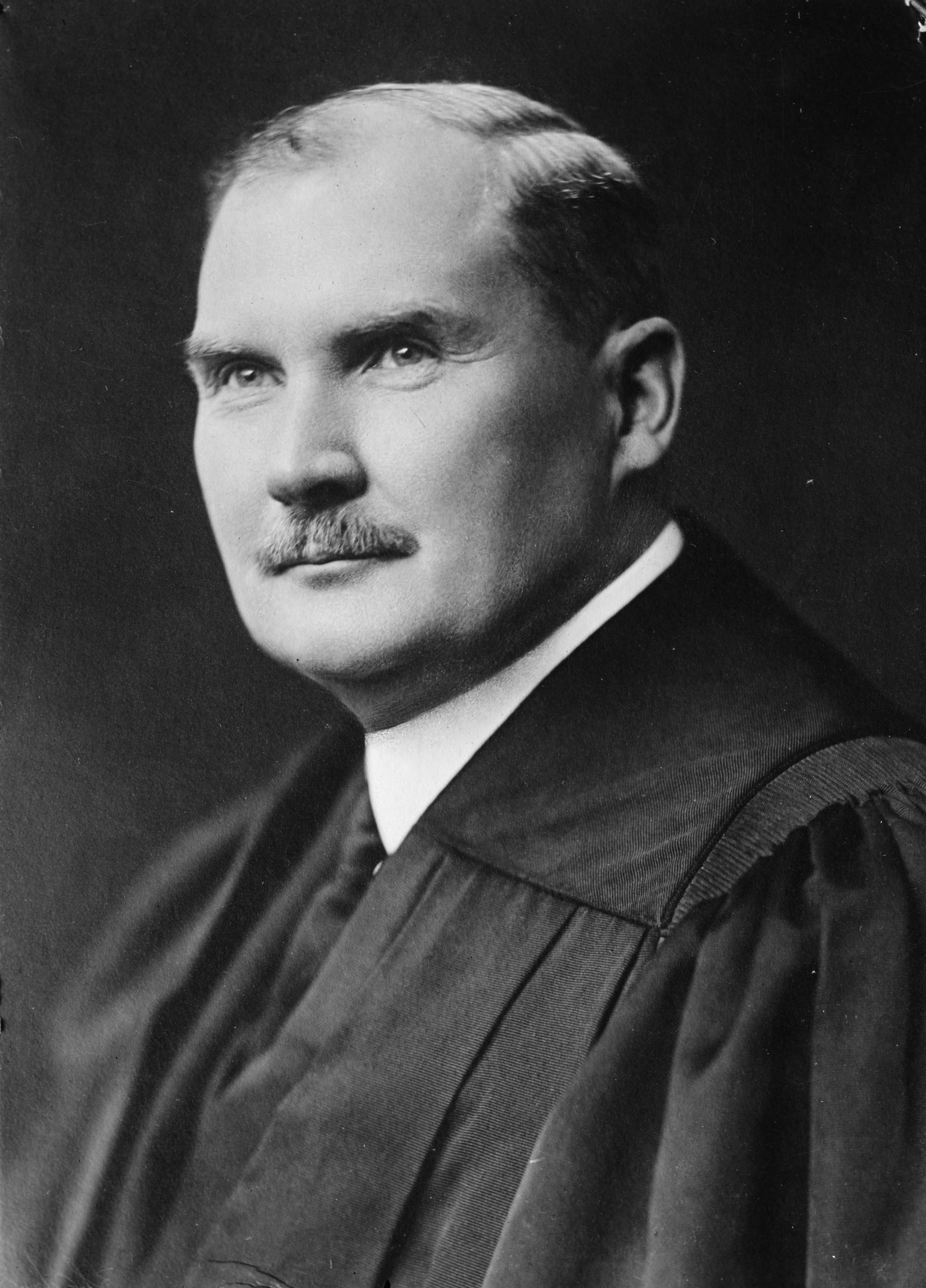 John Ford (New York state senator) in 1915